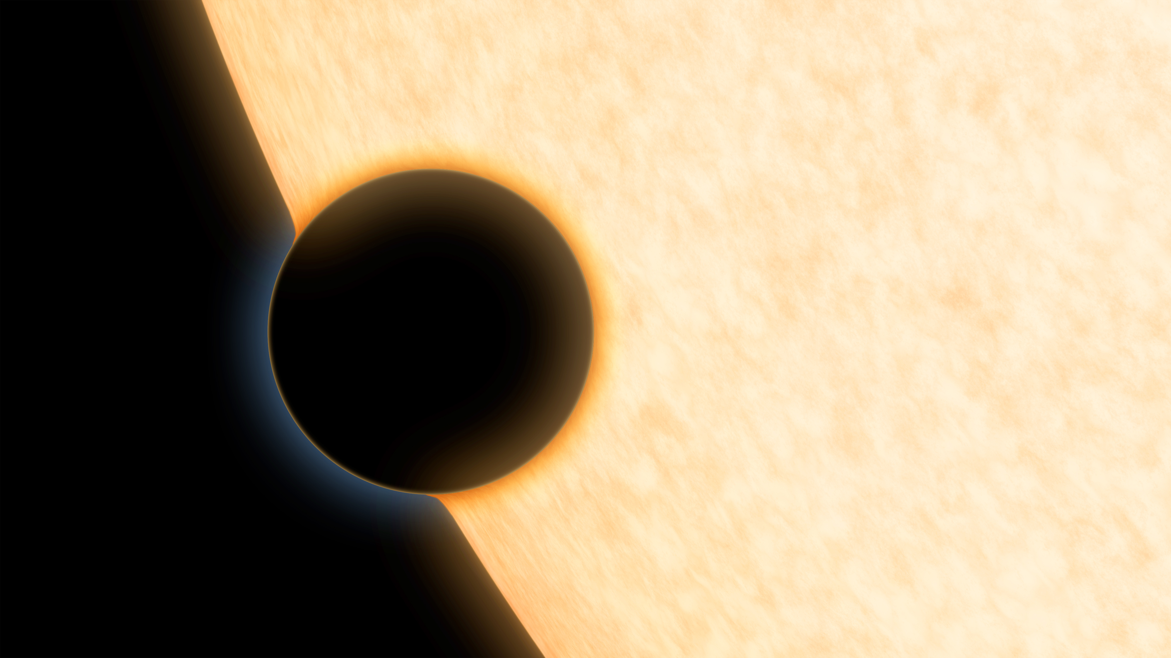 This is an artist's concept of the silhouette of the extrasolar planet HAT-P-11b as it passes its parent star. The planet was observed as it crossed in front of its star in order to learn more about its atmosphere. In this method, known as transmission or absorption spectroscopy, starlight filters through the rim of the planet's atmosphere and into the telescope. If molecules like water vapour are present, they absorb some of the starlight, leaving distinct signatures in the light that reaches our telescopes. Using this technique, astronomers discovered clear skies and steamy water vapour on the planet.